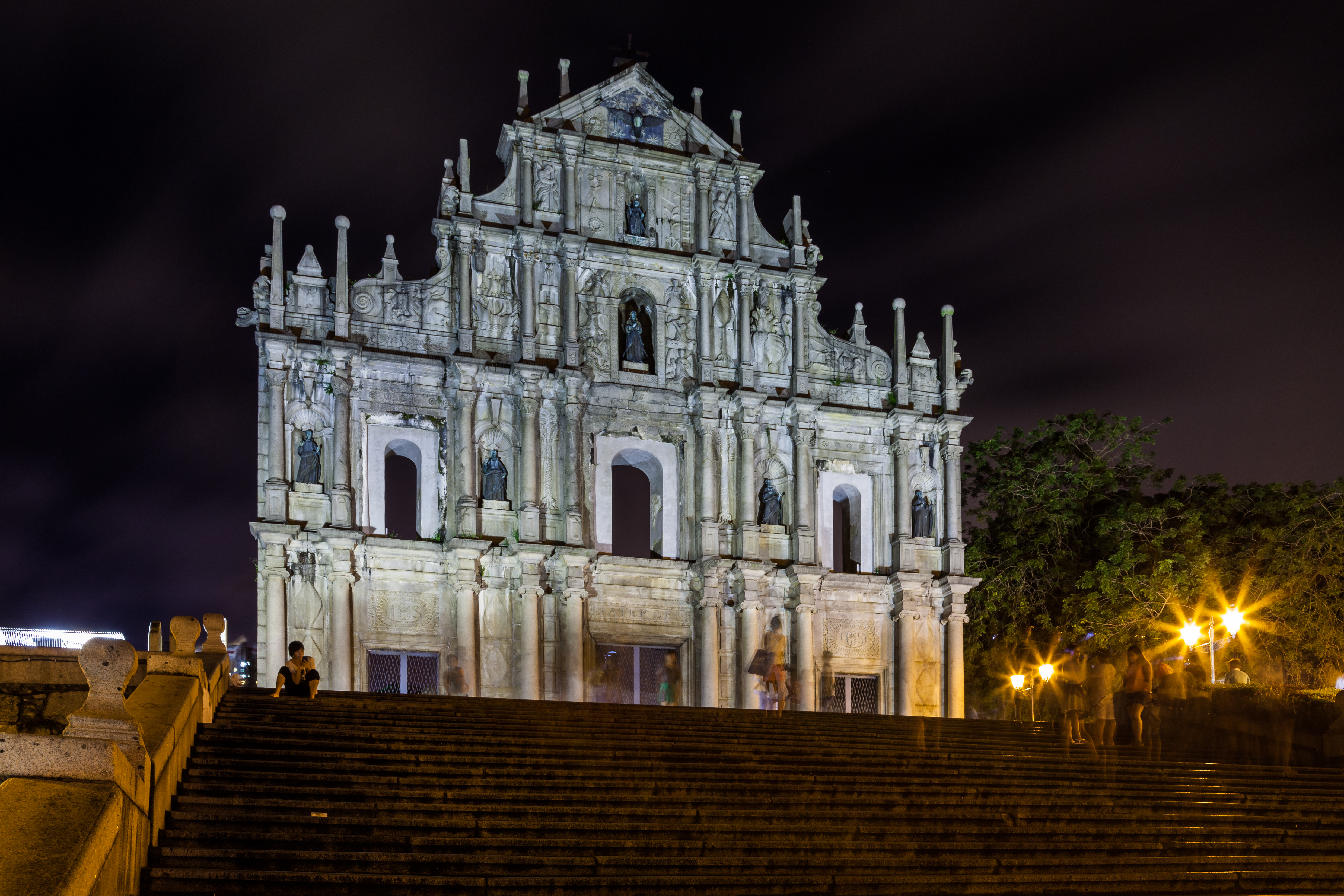 Remains of the Cathedral of St. Paul, Macau